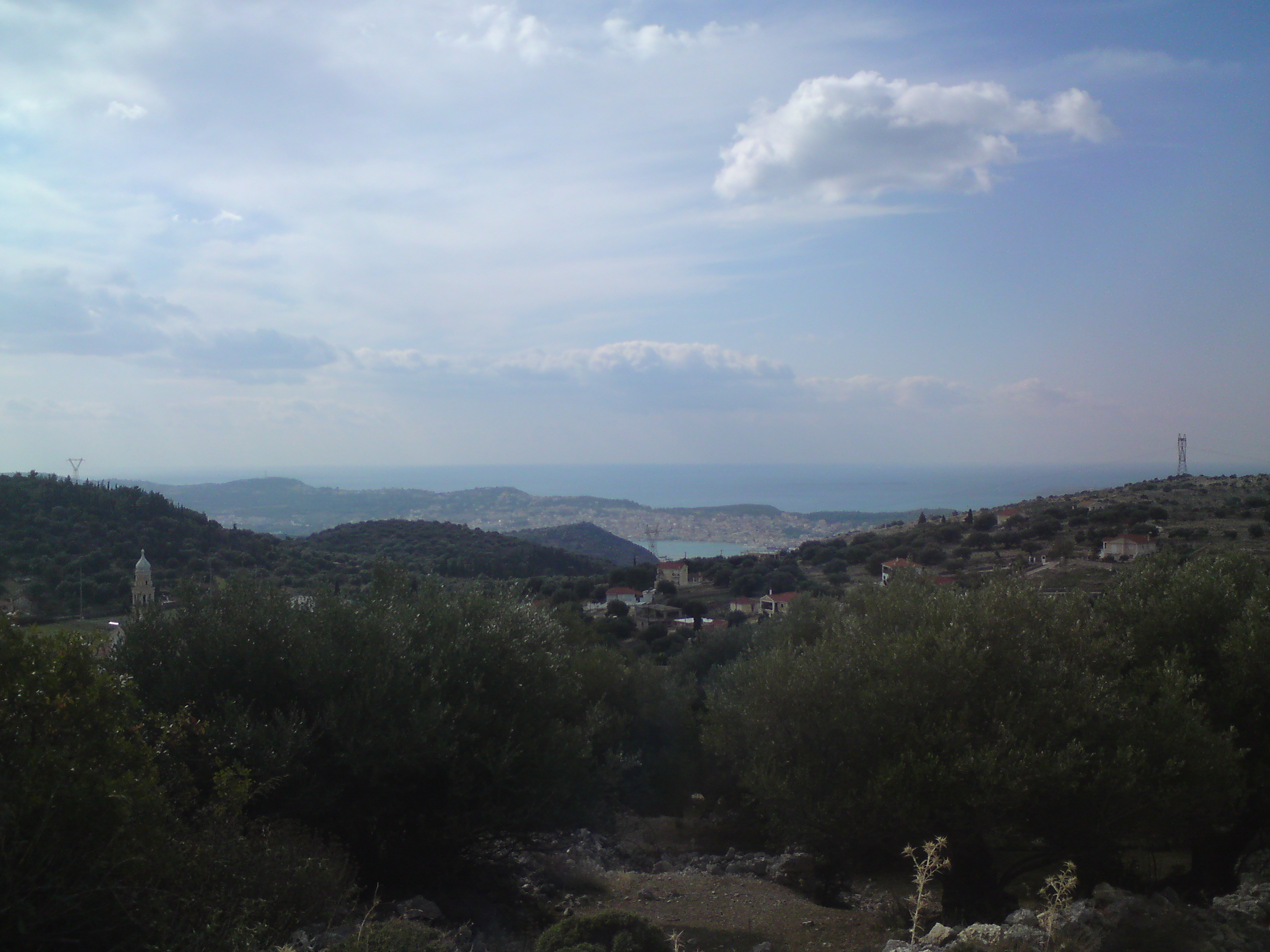 View to Argostoli from the village of Faraklata, Kefalonia, Greece.